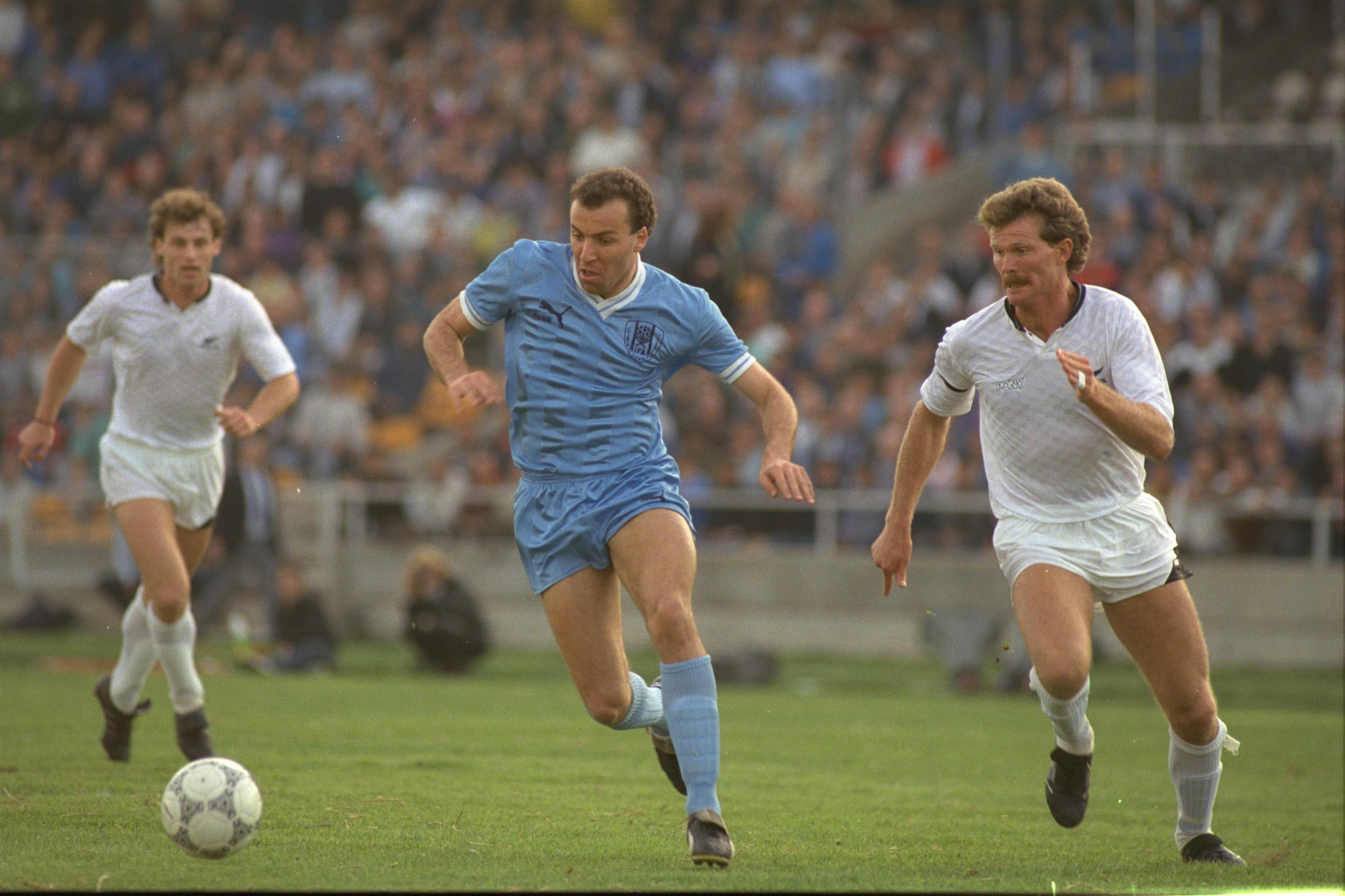 Israeli soccer star Ronny Rosenthal (center) during a game between Israel and New Zealand held at Ramat Gan Stadium.